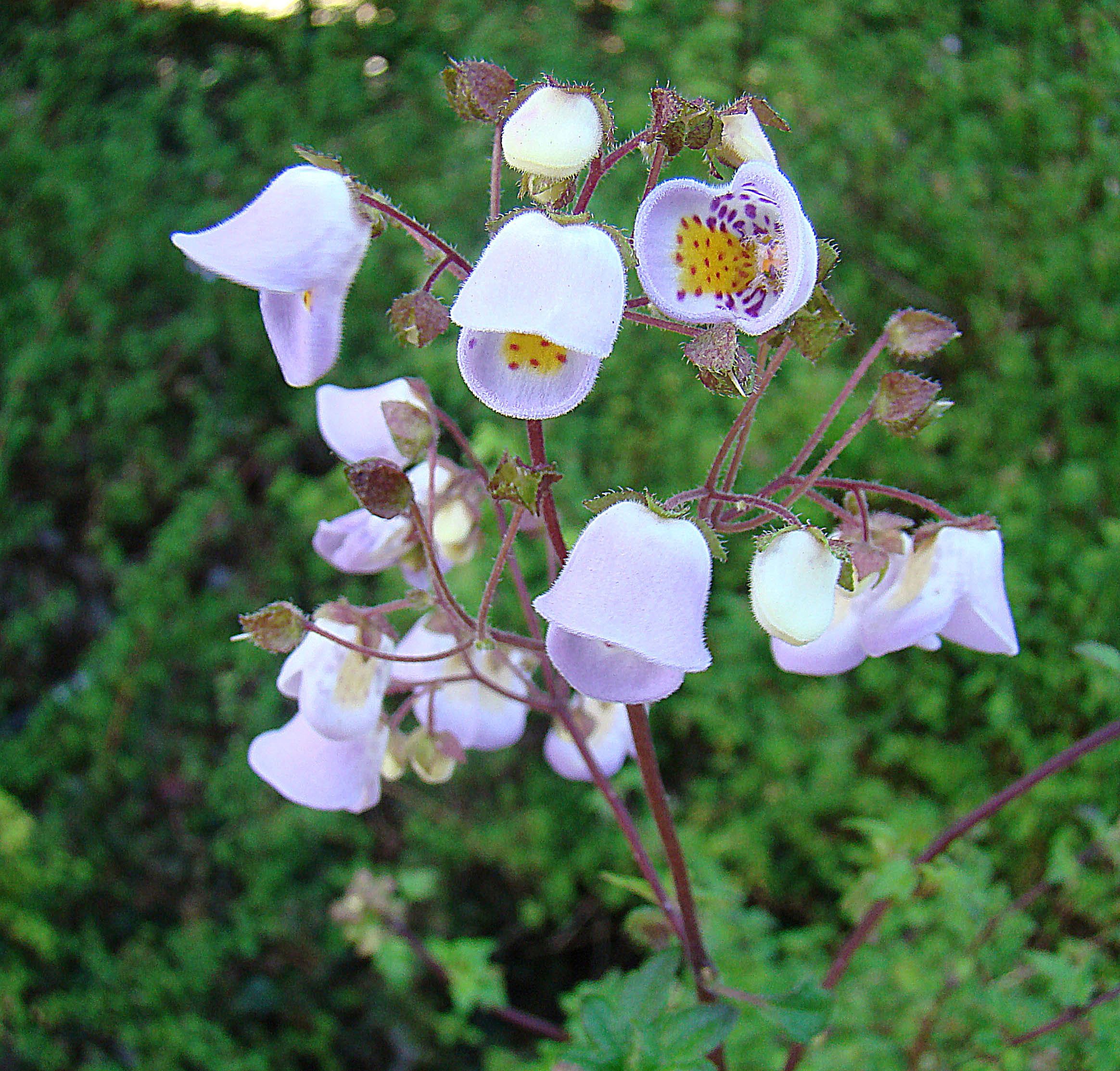 Known as Argenita, this is one of the few species of the family not in the Calceolaria genus. A citizen of southern Chile at the San Francisco Botanical Gardens. In context at